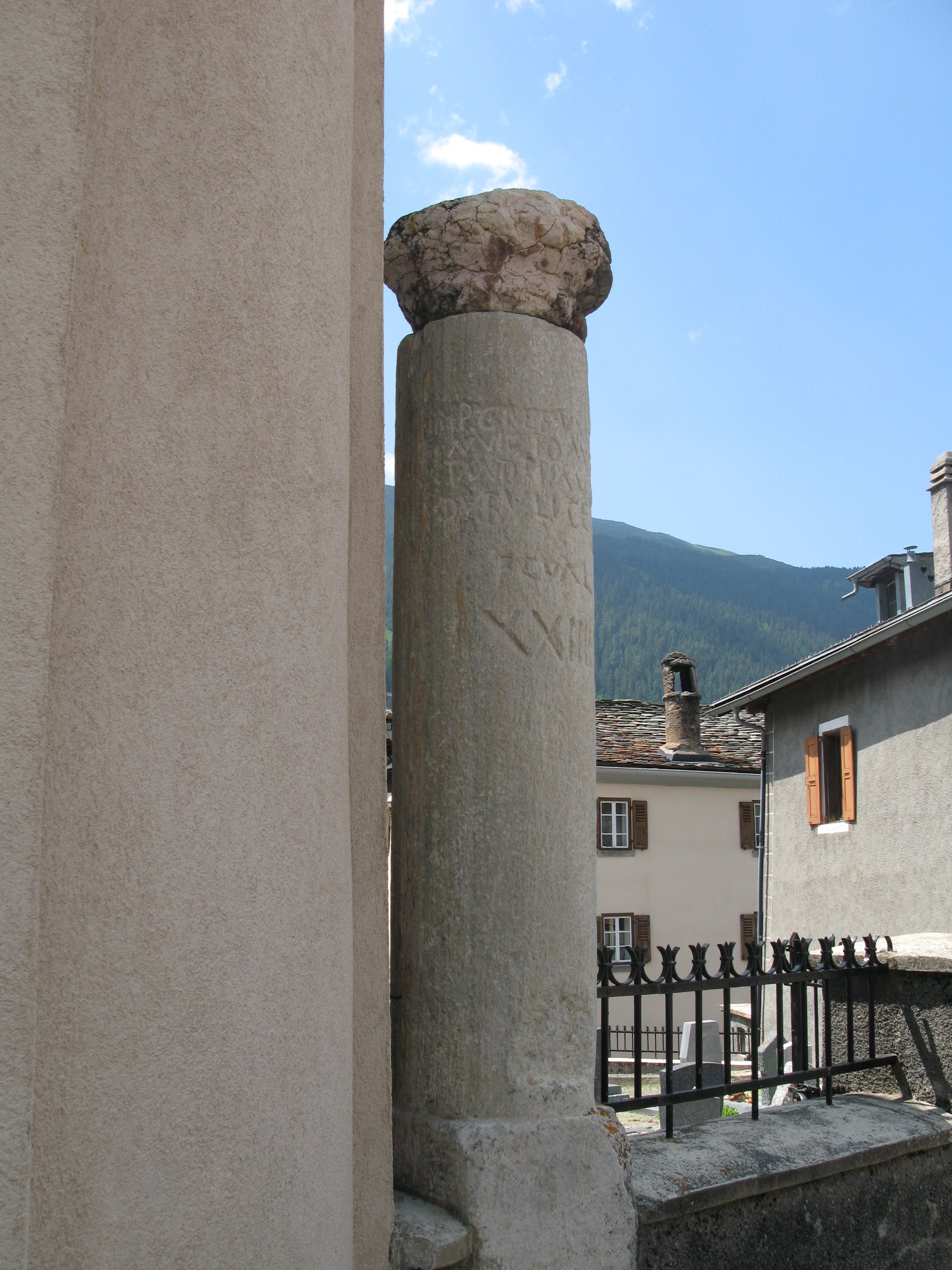 Milestone of pass Great St Bernard Pass